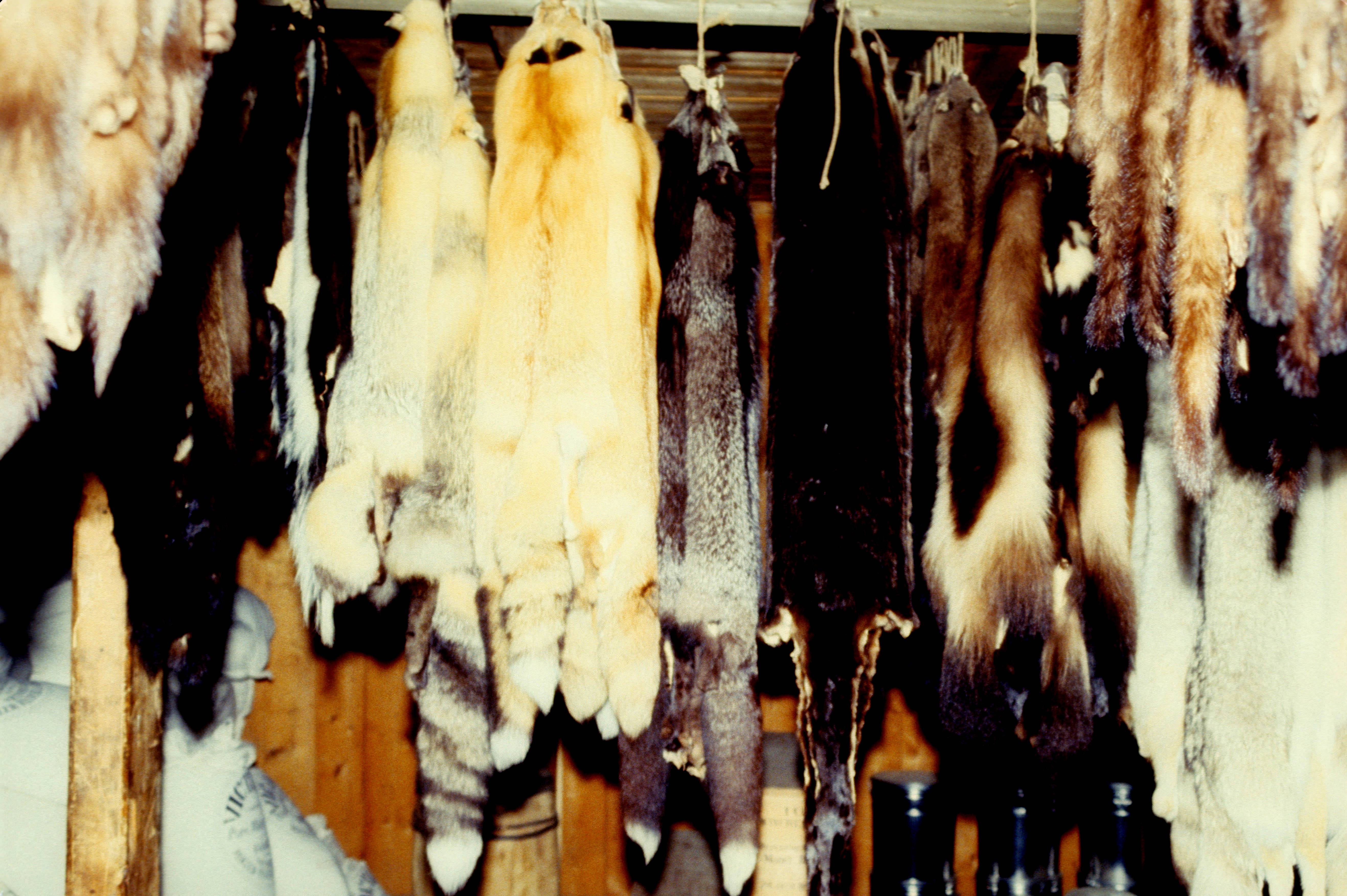 FURS HANGING IN THE STOREHOUSE AT FORT ST. JAMES